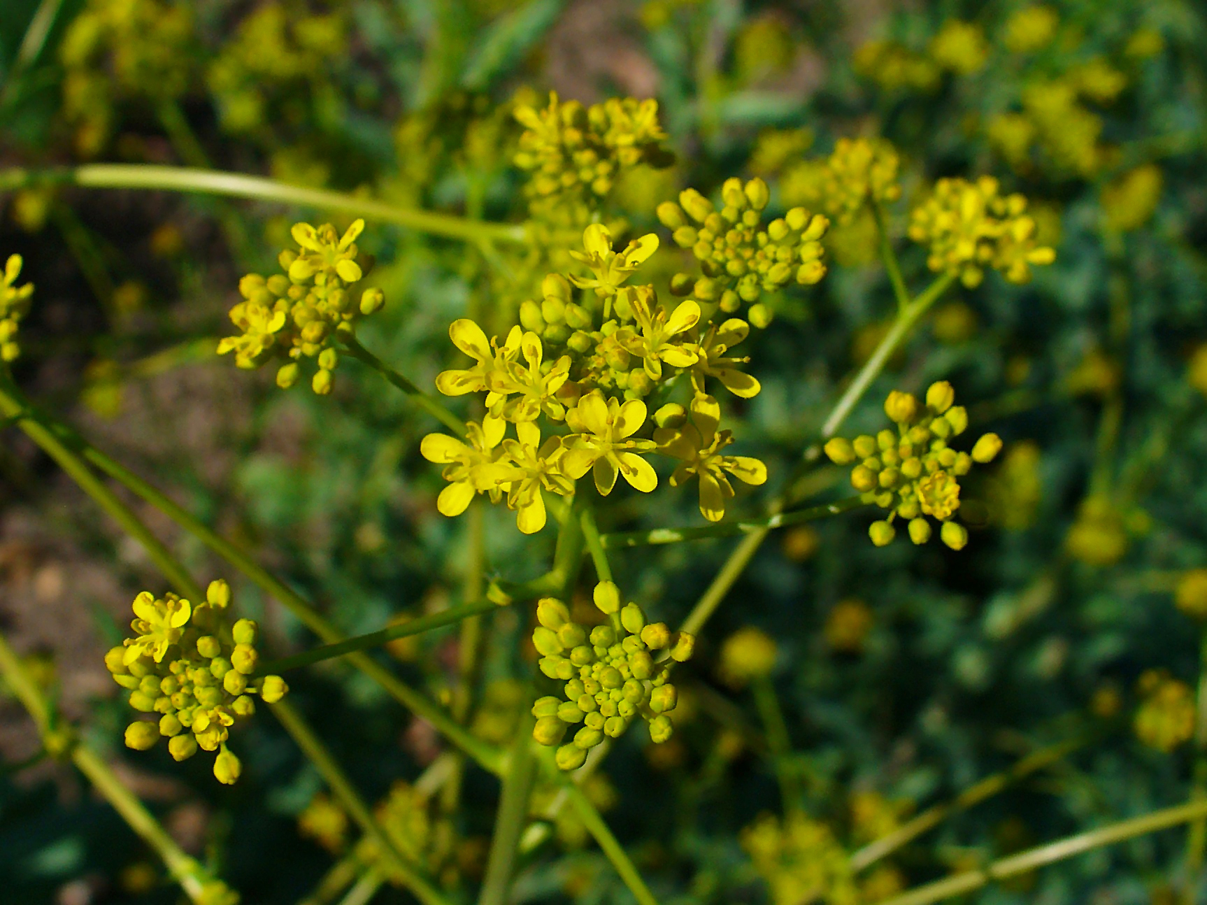 Isatis tinctoria, Brassicaceae, Woad, inflorescences; Botanical Garden KIT, Karlsruhe, Germany.